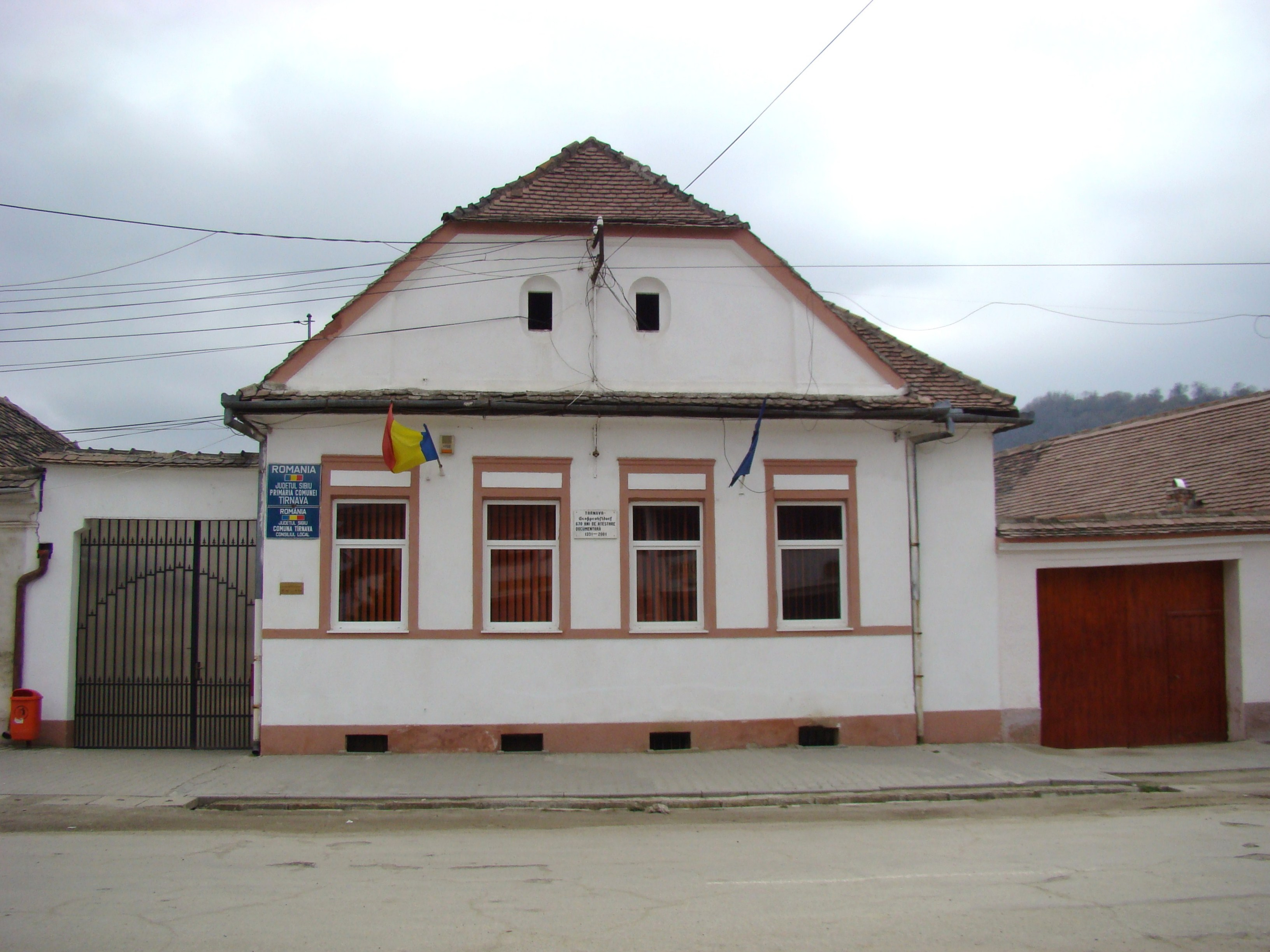 Târnava, Sibiu county, Romania